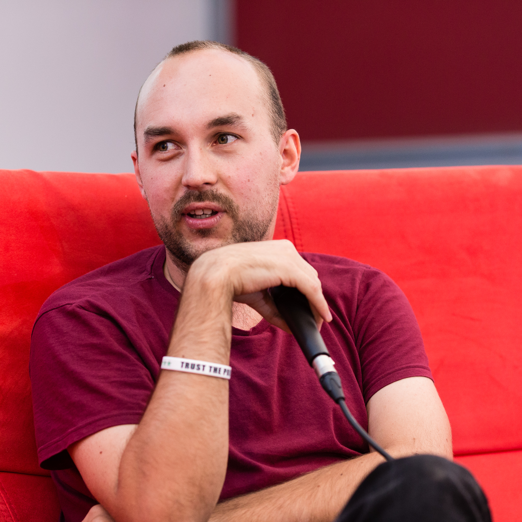 Zbigniew Rokita on Authors’ Reading Month 2018, Wrocław, Poland